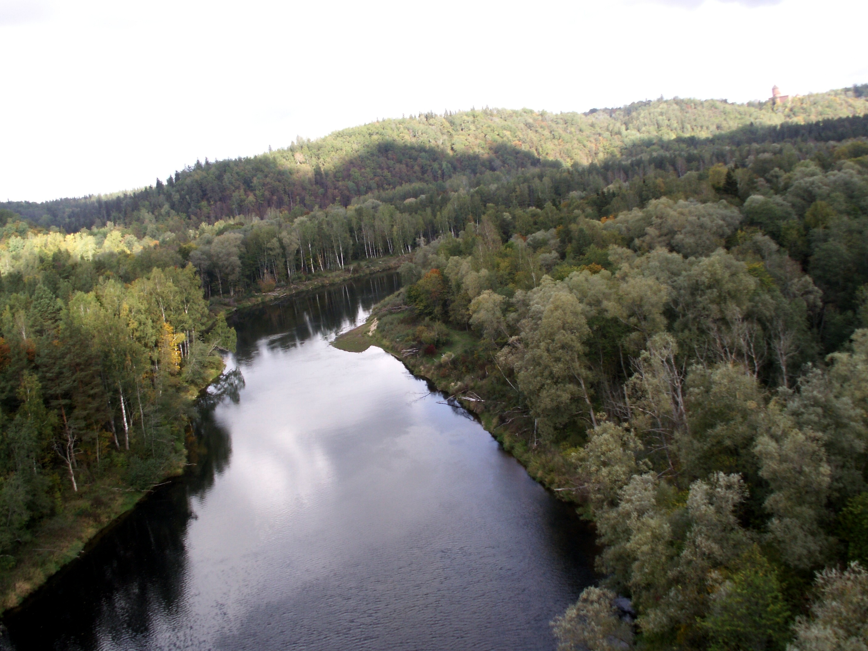 River Gauja near Turaida